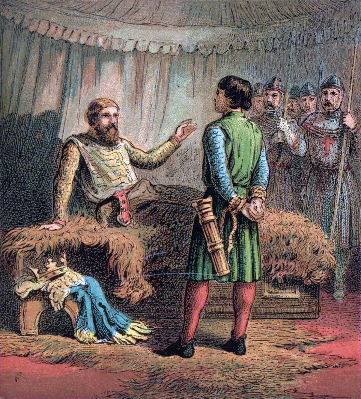 Death of Richard I of England